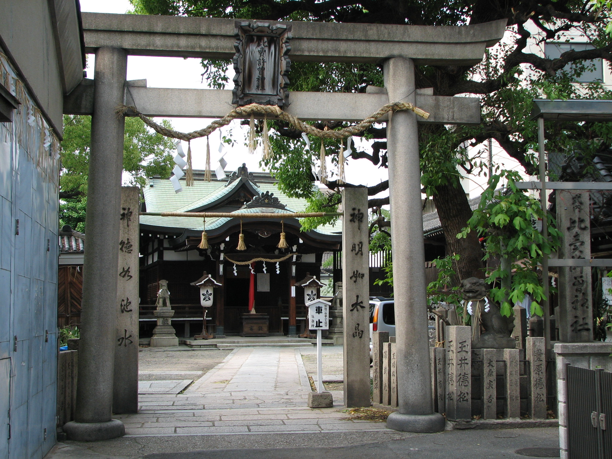 the torii of Himekoso Shrine, Higashinari, Ōsaka, Japan 比売許曽神社鳥居（大阪市東成区）